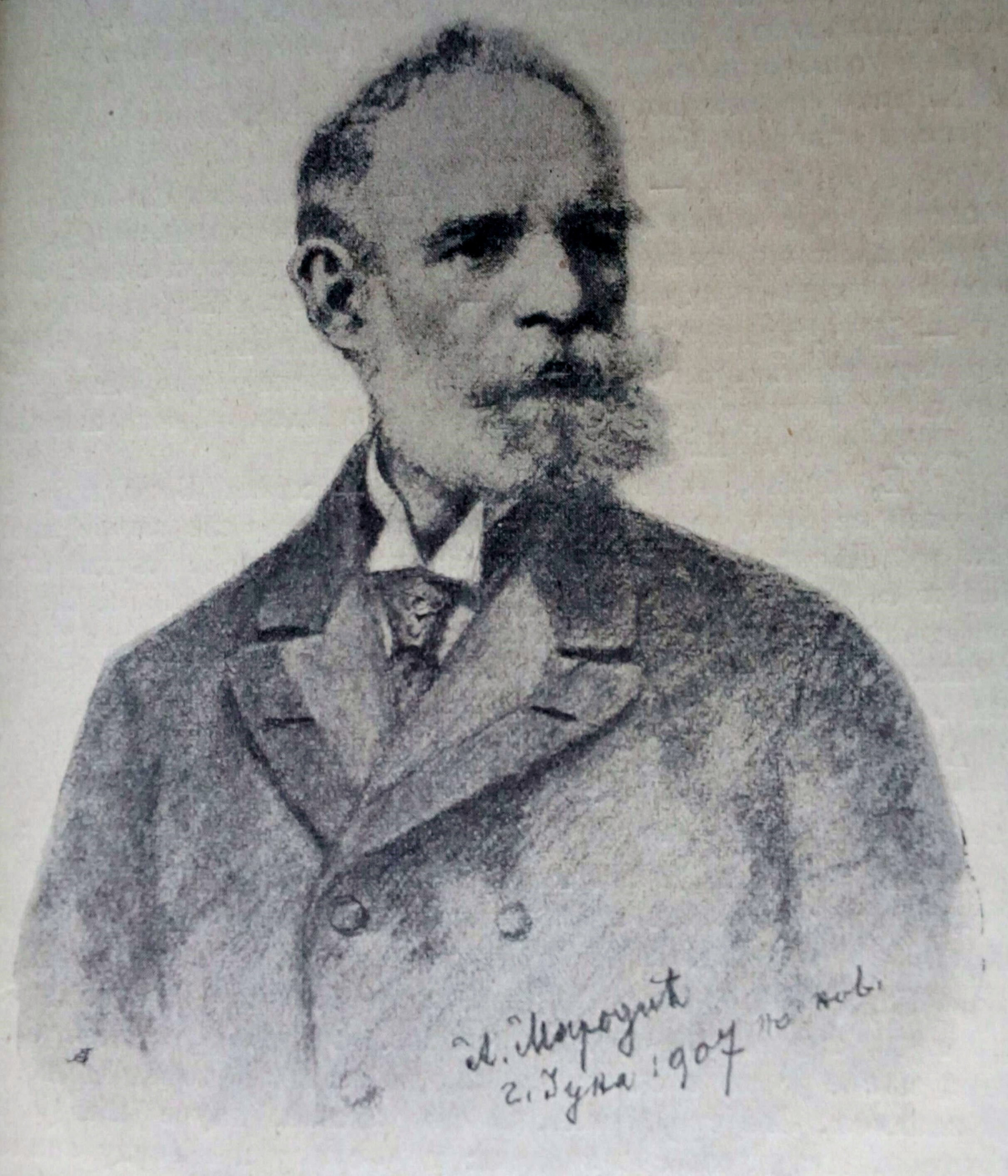 Self-portrait of Aksentije Marodić (1838-1909), Serbian painter. Taken from the 1908 edition of the Matica Srpska Calendar. Srpski (latinica): Autoportret Aksentija Marodića (1838-1909), srpskog slikara. Preuzeto iz izdanja Kalendara Matice srpske za 1908. godinu.